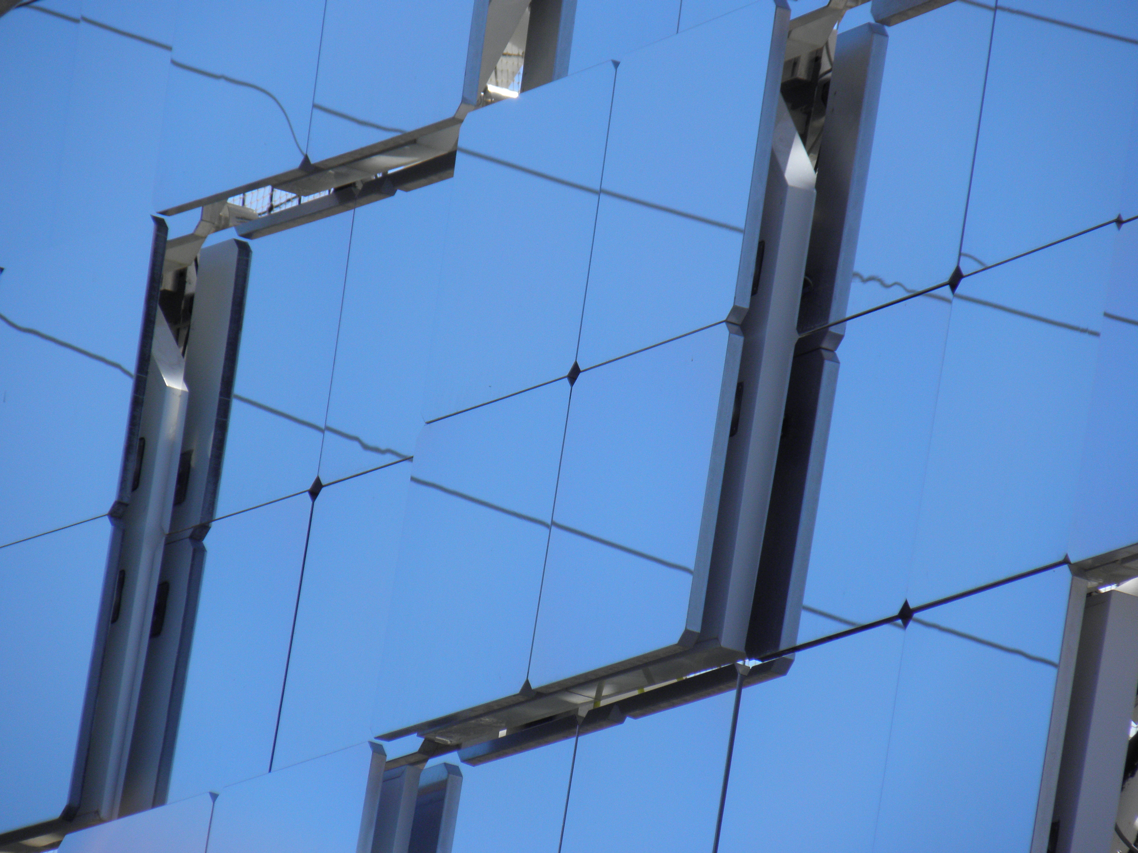 Individual tiles of on of the two MAGIC telescopes on La Palma.